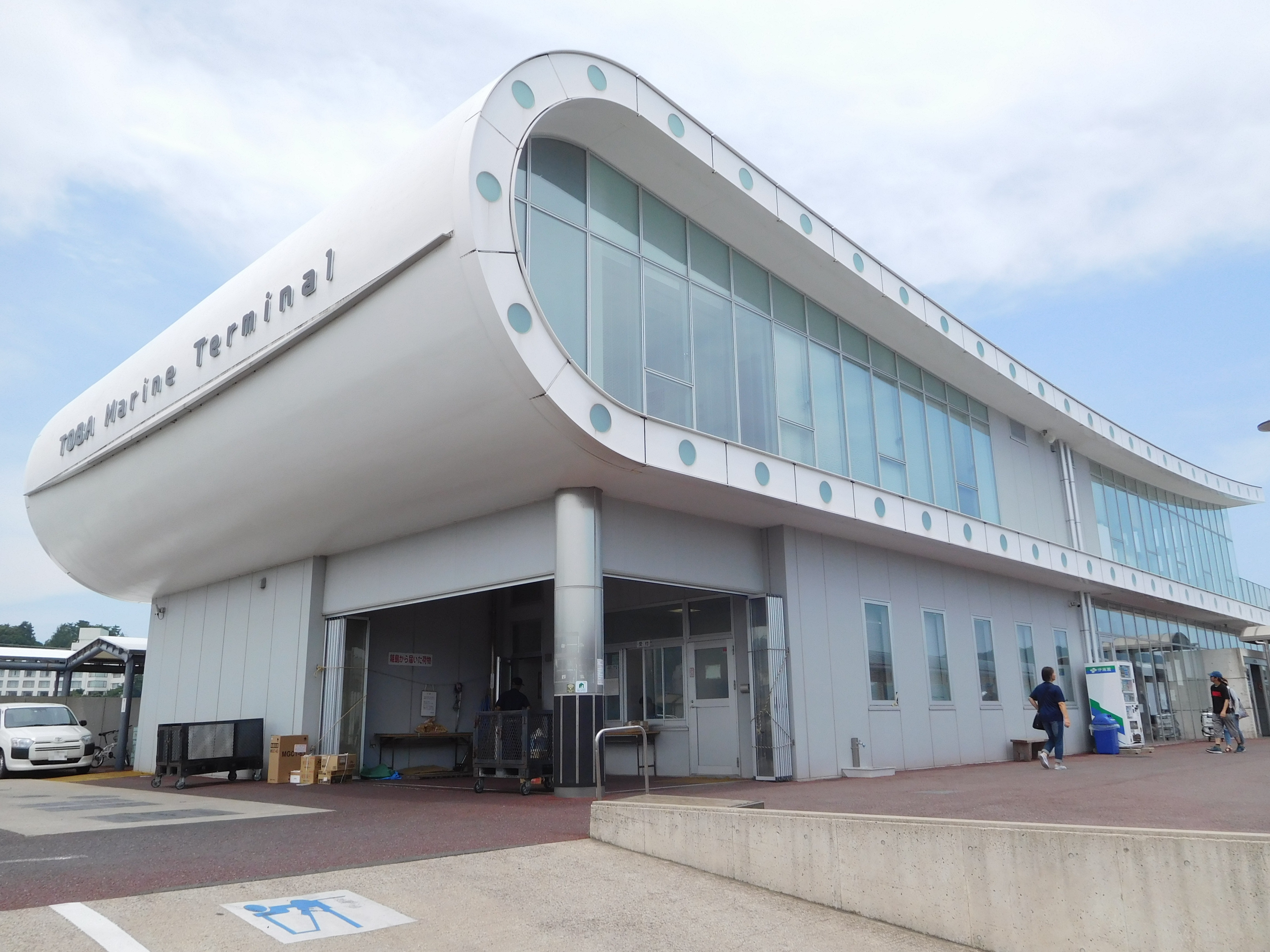 This is the Toba Marine Terminal, which is in Toba port, Mie, Japan. It is also headquarter of Shima Marine Leisure.